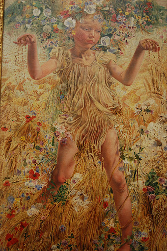 Summer